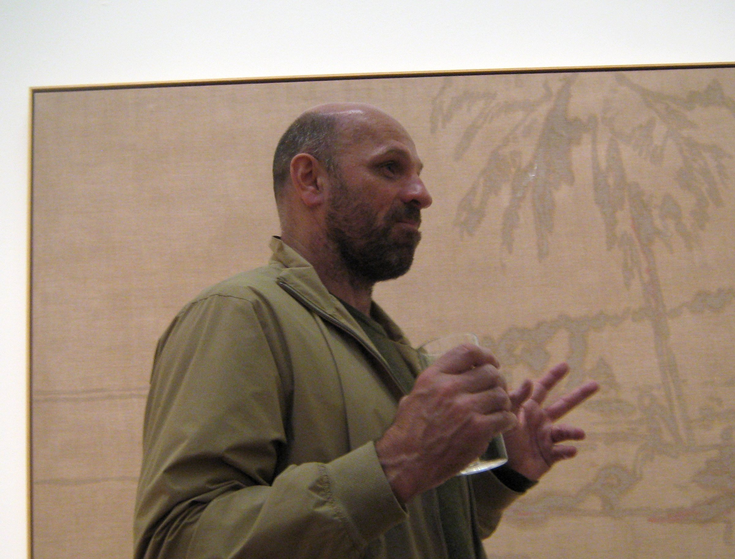 Photo of Peter Doig talking to press during preview of 'No Foreign Lands' exhibition[1]. Attended, by invitation, by Wikinewsie Brian McNeil. [1]